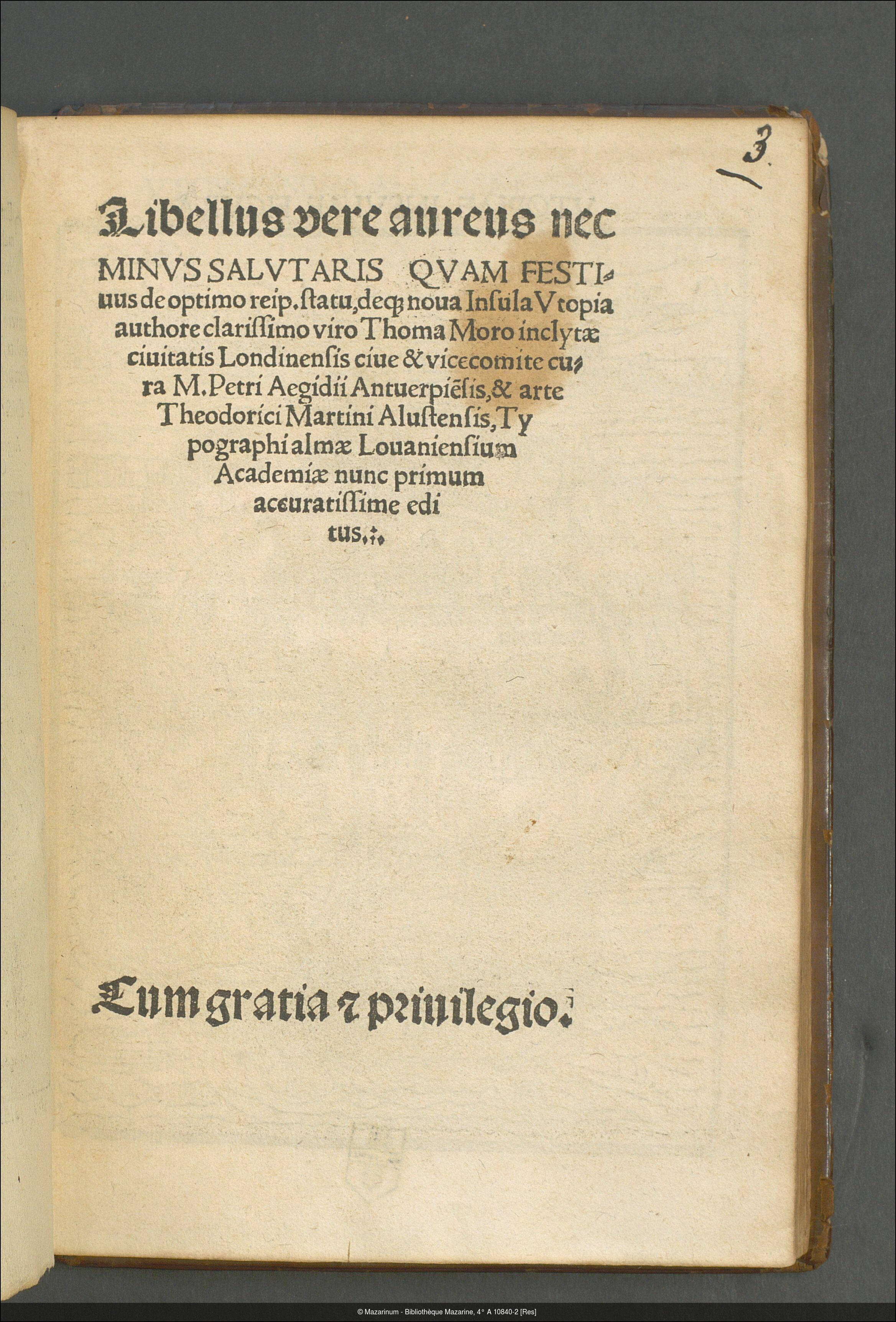 This is the title page of Thomas More's Utopia, as it appears in the first edition of 1516, printed by Dirk Martens